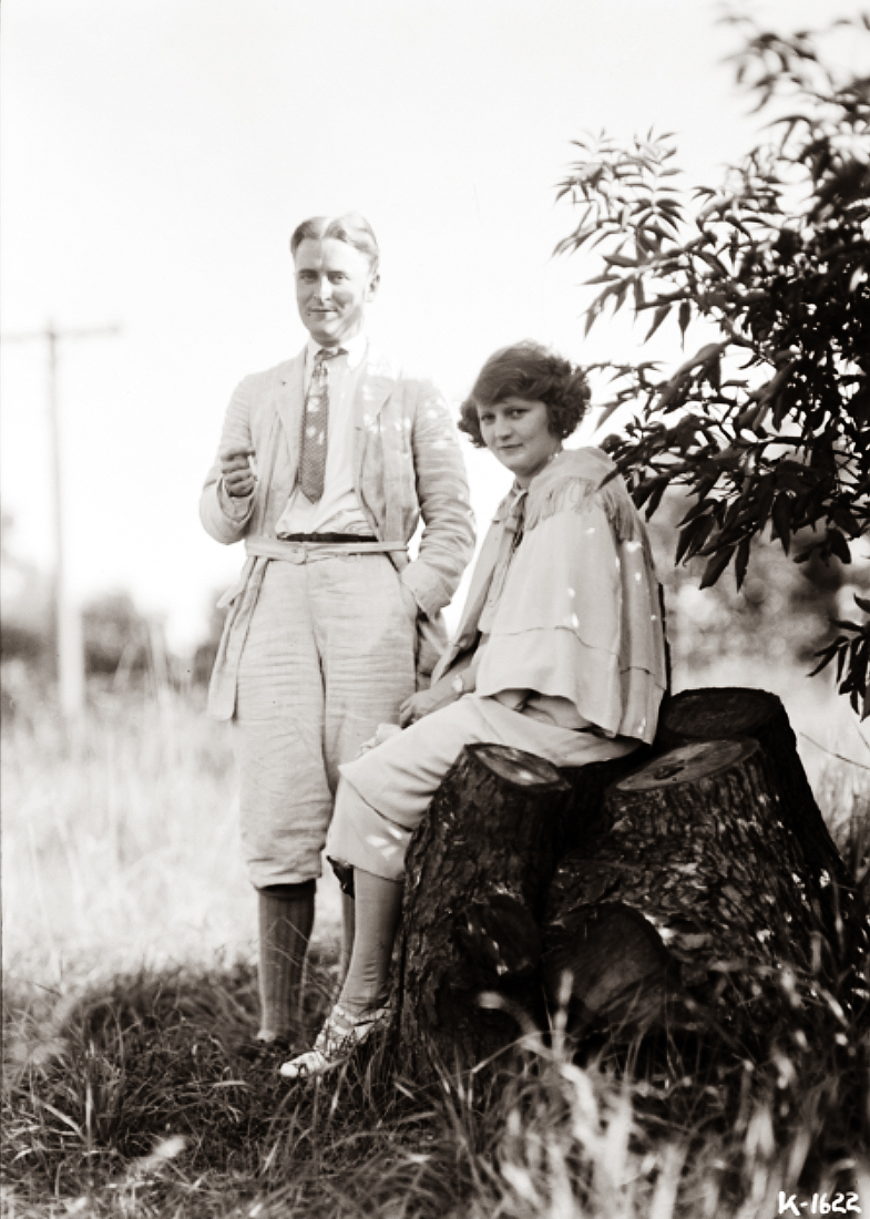 Black-and-white photographic portrait of writer F. Scott Fitzgerald and wife Zelda at Dellwood, one month before daughter Scottie's birth. Courtesy of the Minnesota Historical Society.